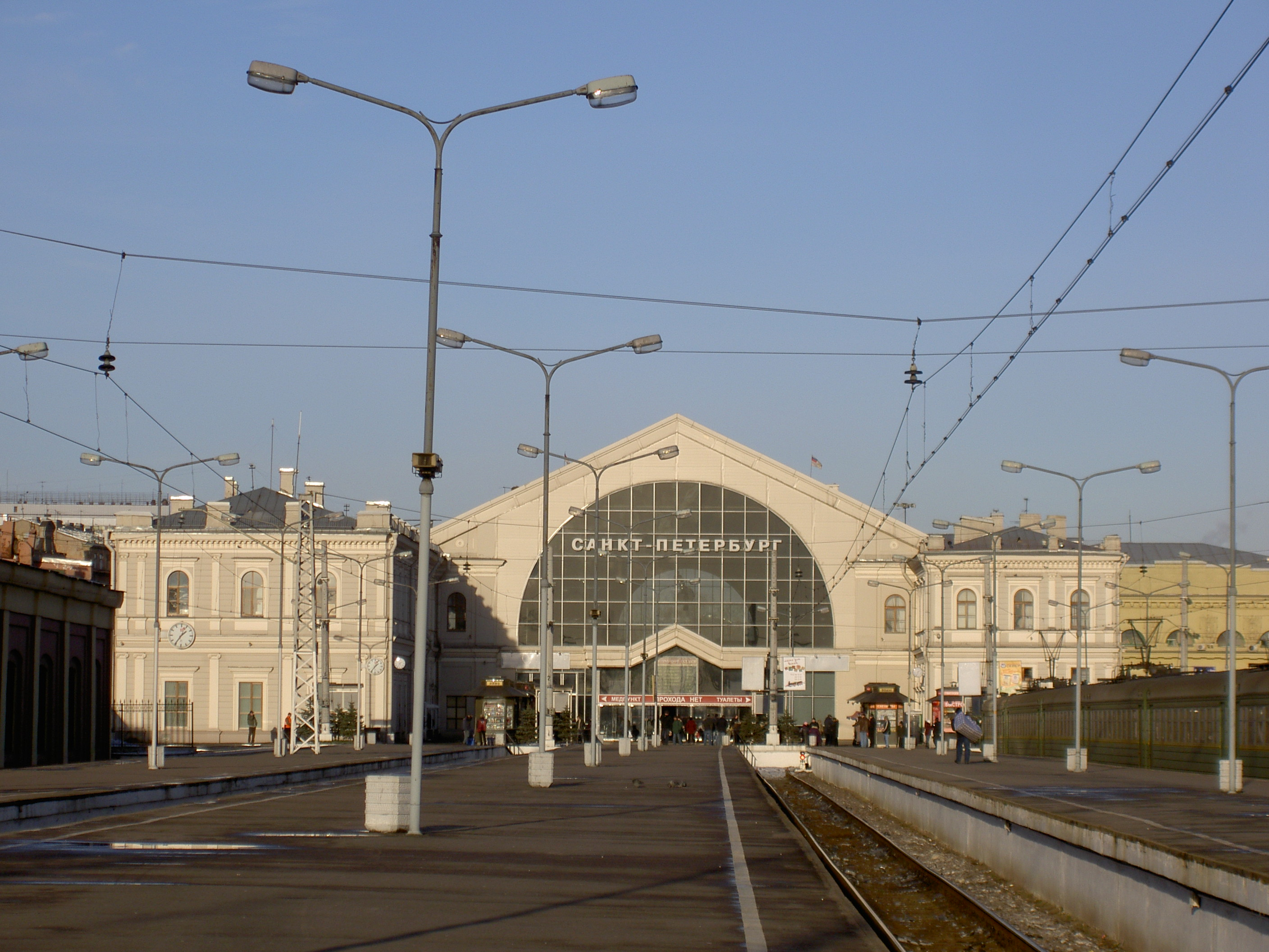 Baltic rail terminal in Saint Petersburg